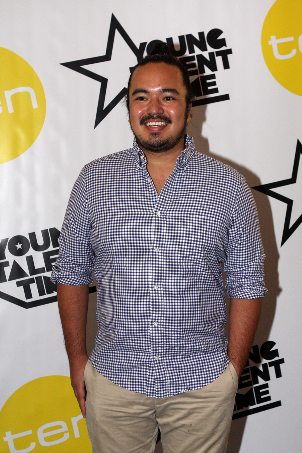 Young Talent Time Media Event at Luna Park Sydney